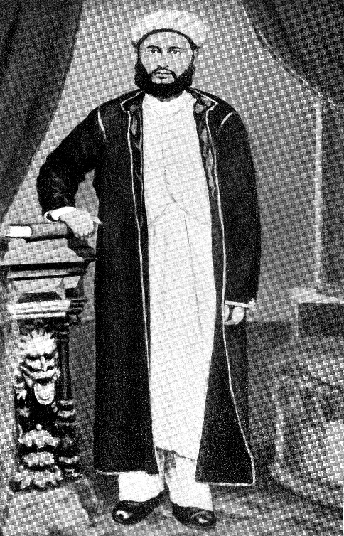 CLYDE, David F. D. F. Clyde, The history of the medical services of Tanganyika. Dar es Salaam: Government Press, 1962. Photograph of Sewa Haji, bewteen pages 14 and 15. General Collections Keywords: david f clyde; gc; medical services; tanganyika